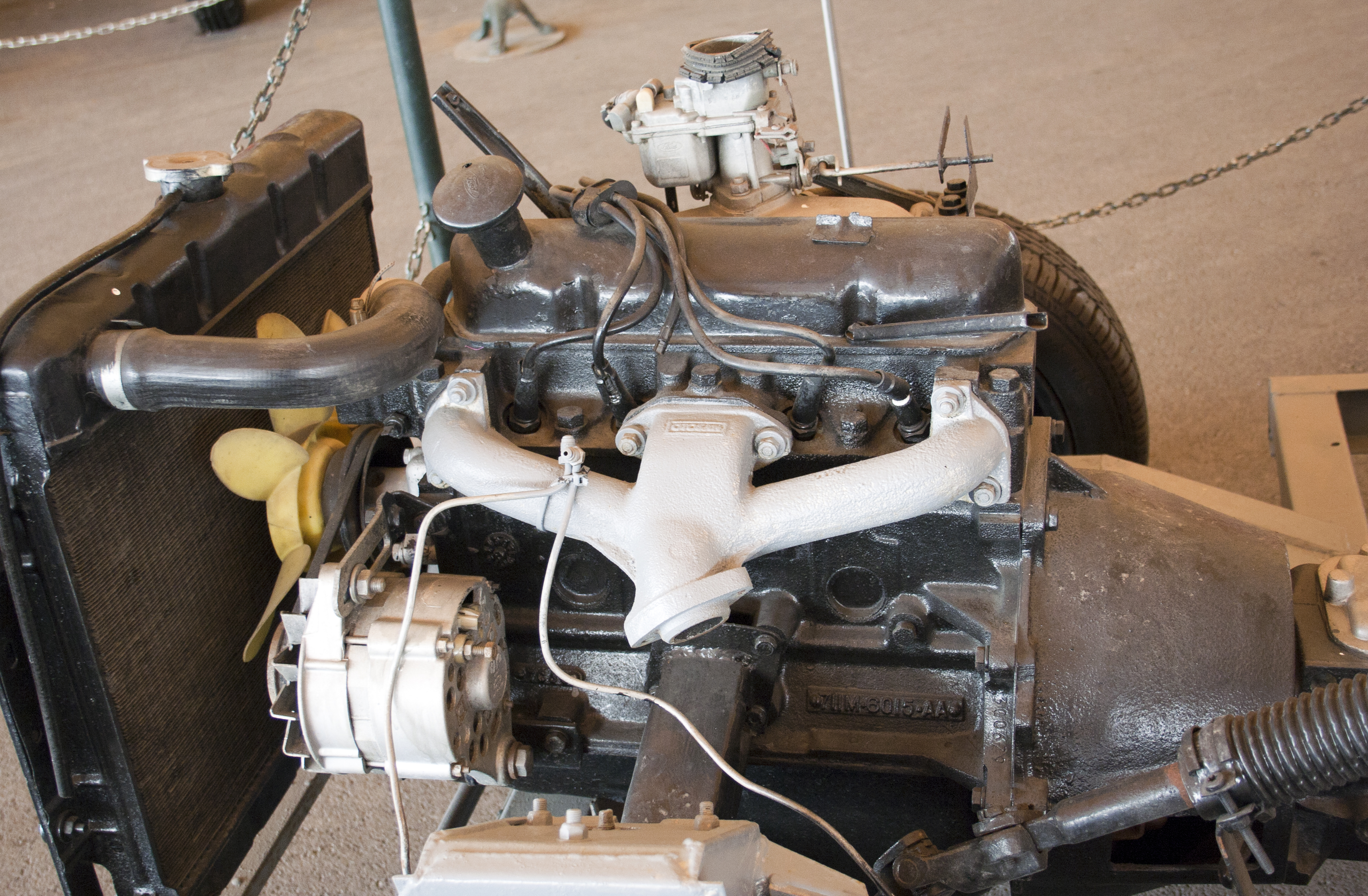 The 1.6 litre Kent engine (seemingly an Otosan-built unit) mounted in an Anadol/Reliant FW11 prototype chassis on display at the Rahmi M. Koç Museum of Transportation.